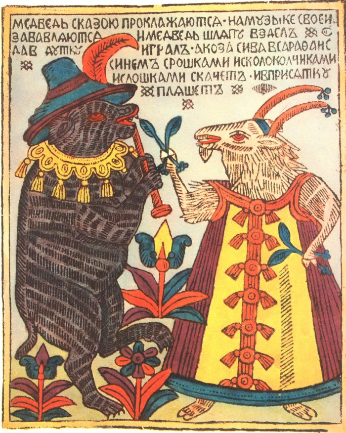 Lubok, A bear and a goat cooling off.